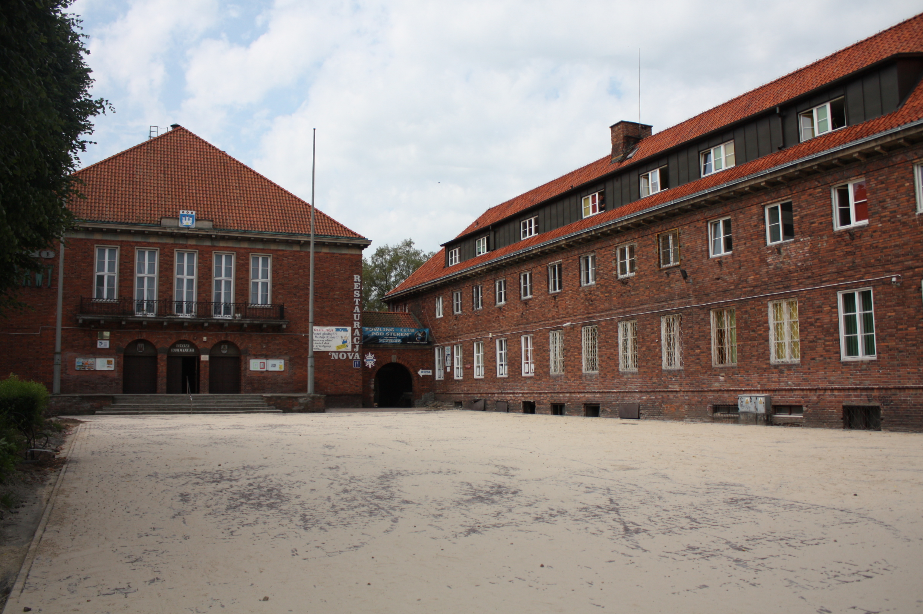 Nowy Dwór Gdański